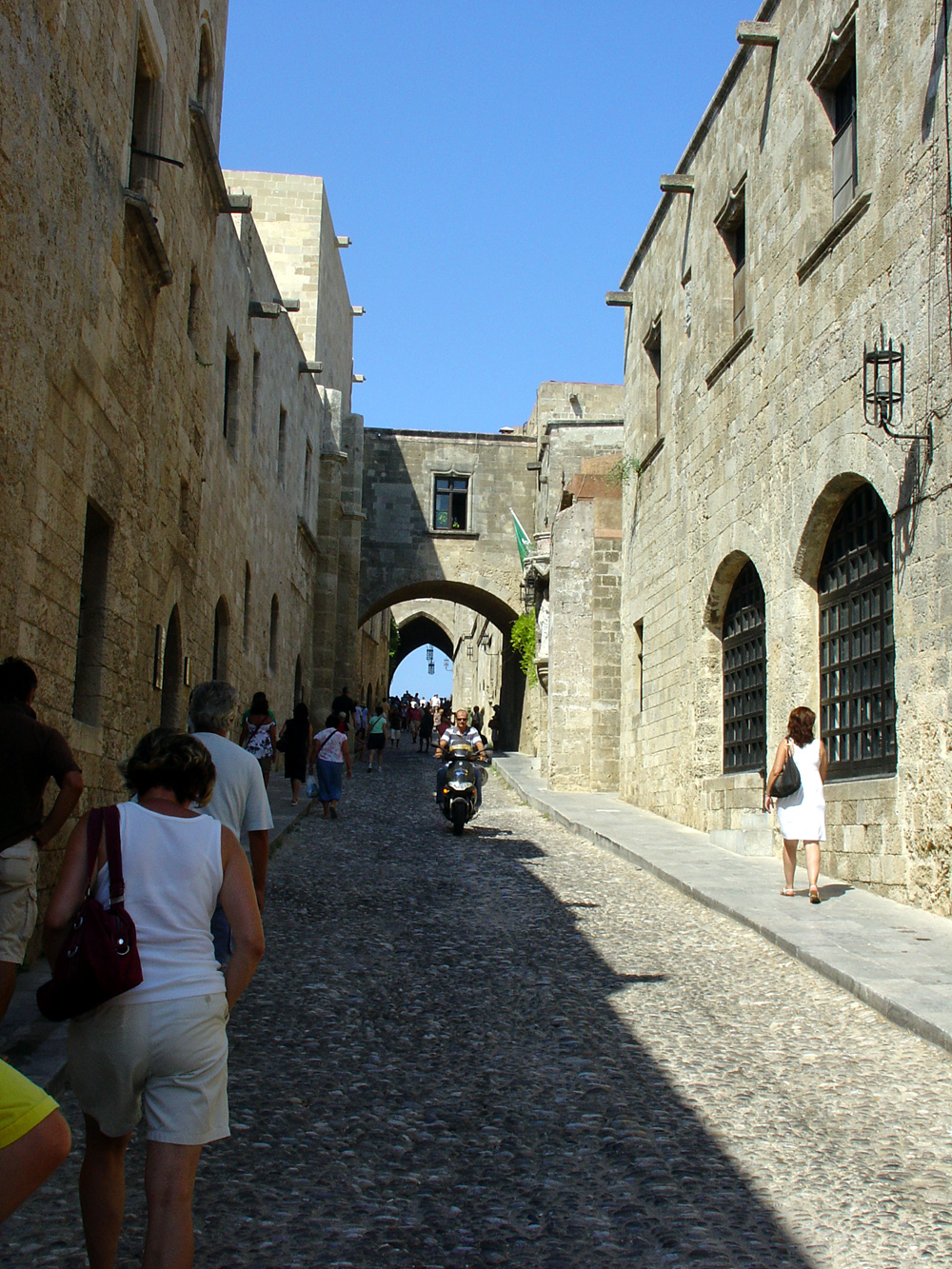 Street of the Knights in old Rhodes town (on Greece island Rhodes).